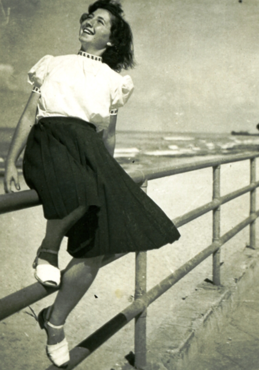 A girl on the beach, Entertainment